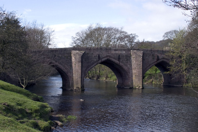 Cromford Bridge. Cromford Bridge over River Derwent, Derbyshire, SK301571